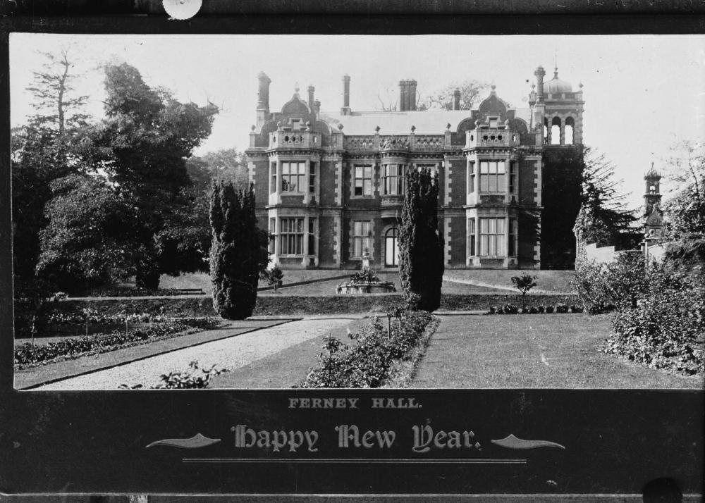 Abstract: Image of a greeting card in photographic form.